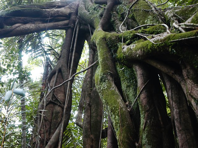 Stilt roots of Ficus sp. (Moraceae), forest on Ajuruteua Peninsula, Bragança, Pará, North Brazil *